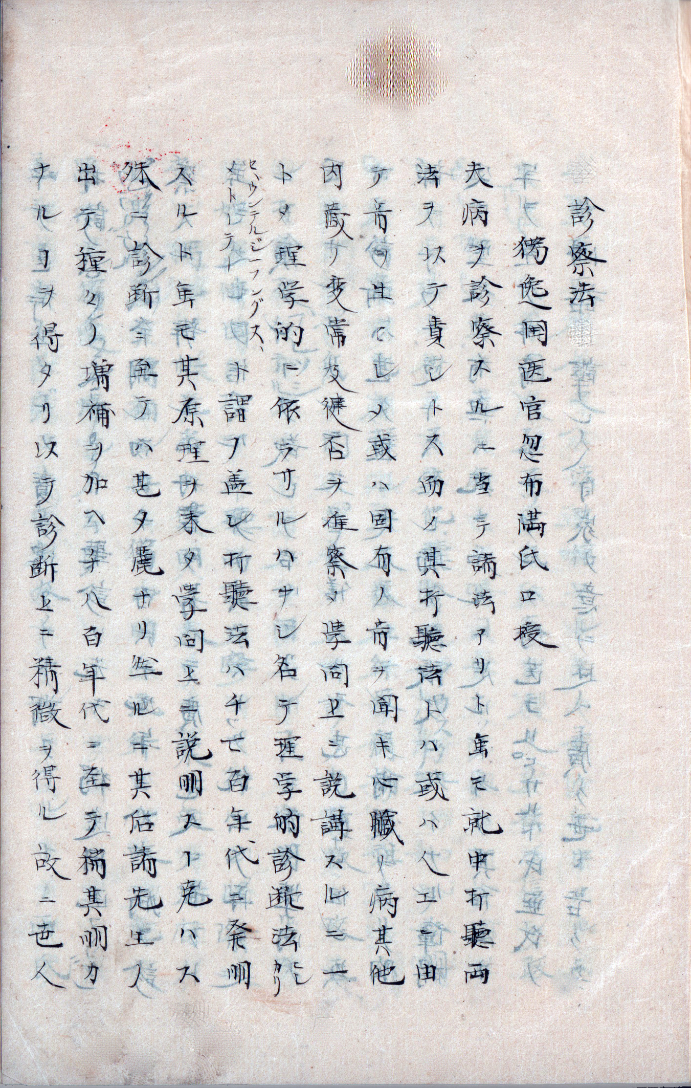 ion Japanese translation of Theodor Eduard Hoffmann's /1837-94) lecture on diagnostics give at the Medical School in Tokyo between August 1871 and spring 1875 (Collection W. Michel, Fukuoka)